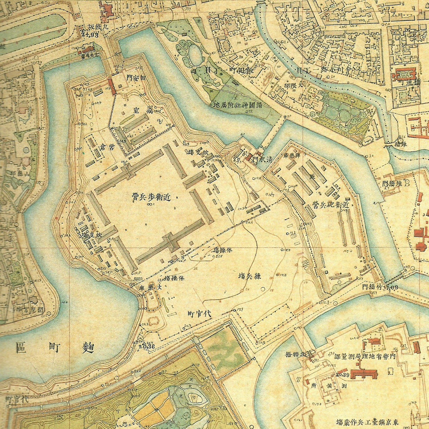 Detail of a reprint of Tokyo 1:5000 (1883)